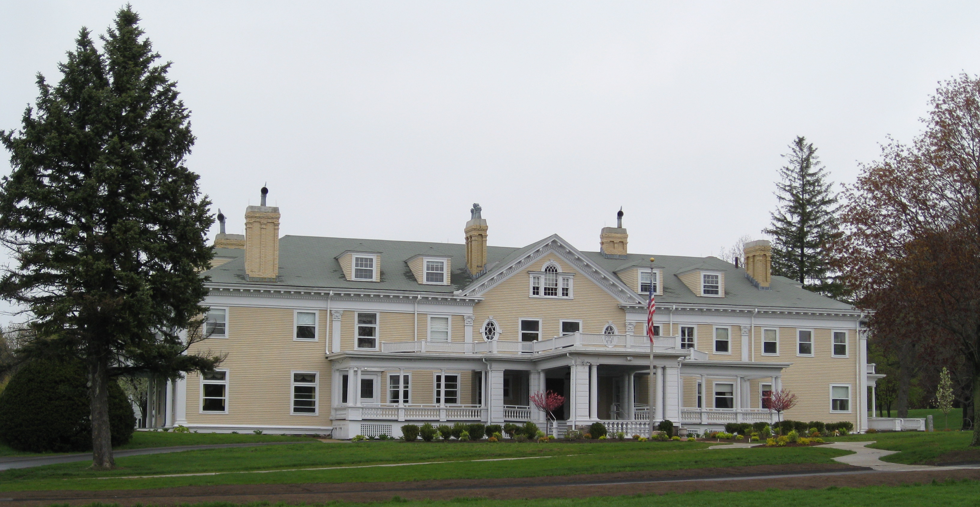 Endicott Estate, Dedham, MA, front